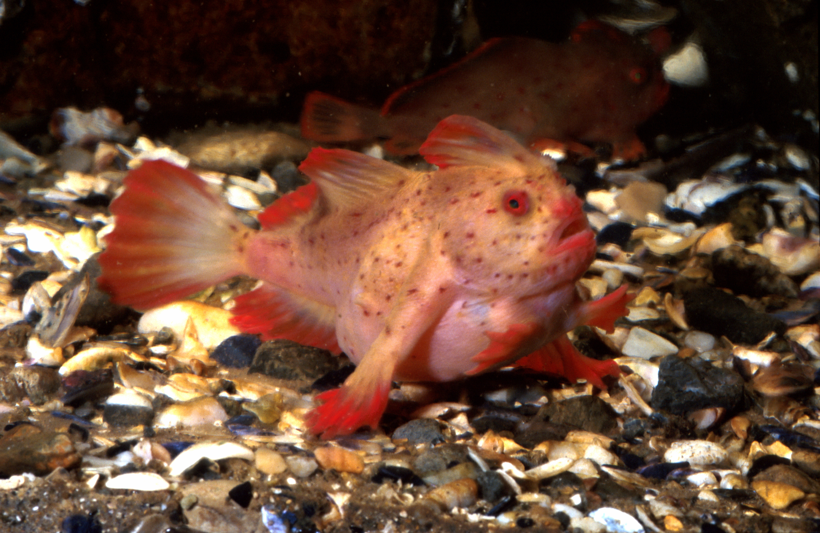 The red handfish ('Sympterichthys politus') is found on shallow rocky reefs in only a few locations in south- eastern Tasmania. They grow to about 100 mm in length. Handfish are small, bottom-dwelling fishes that would rather "walk" on their pectoral and pelvic fins than swim. They are native to Australia and five of the eight identified handfish species are found only in Tasmania and Bass Strait. The spotted handfish is endemic to Tasmania's lower Derwent River estuary. In 1996, the spotted handfish became the first Australian marine fish to be listed as endangered. Scientists, government and the community are involved in a federally-funded recovery plan for the spotted handfish led by CSIRO Marine Research. Picture credit: Thor Carter/CSIRO Marine Research